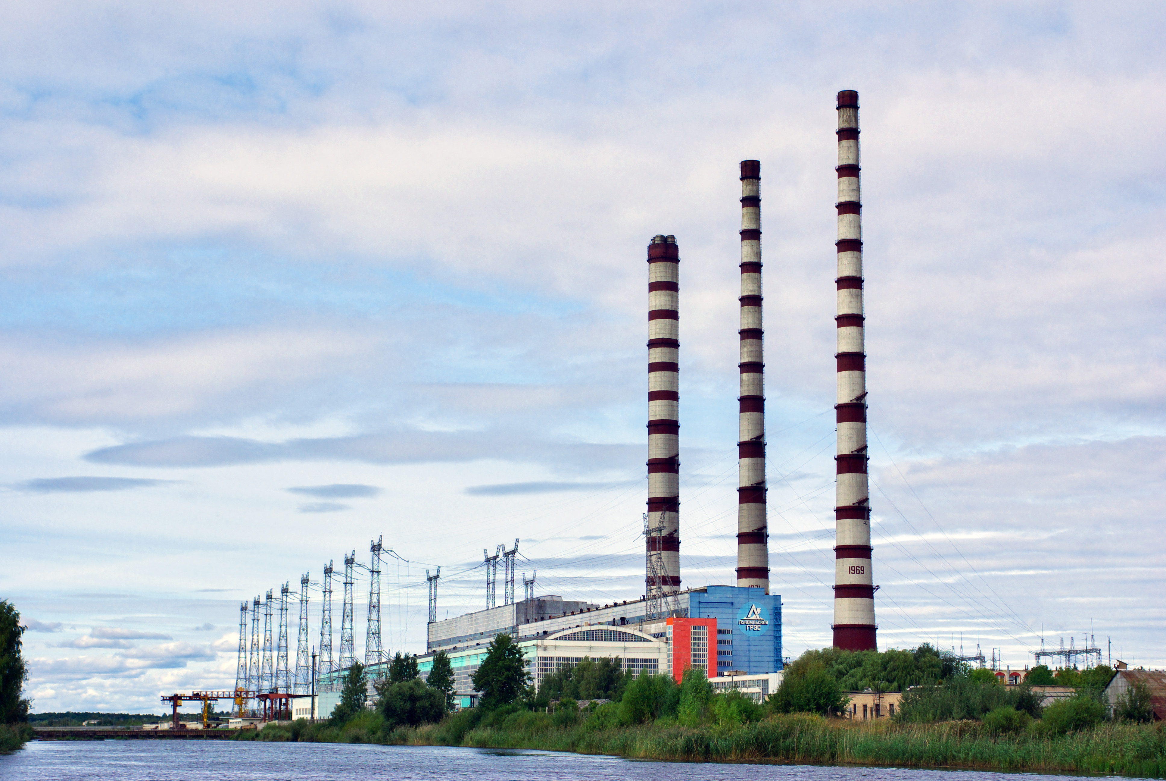 Lukoml power station Беларуская (тарашкевіца): Лукомальская ДРЭС